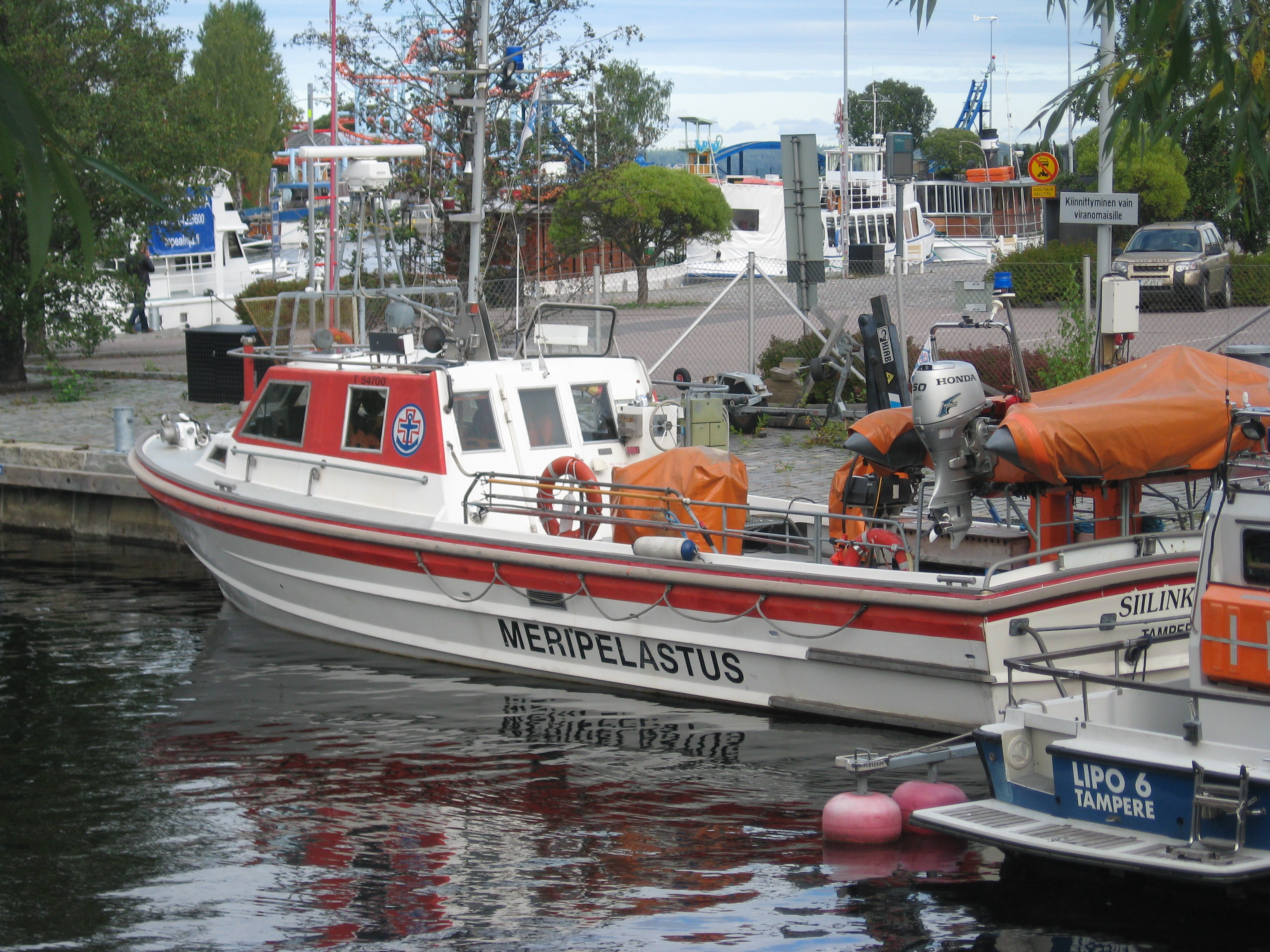 A rescue boat in the harbour of Mustalahti in Tampere, Finland.